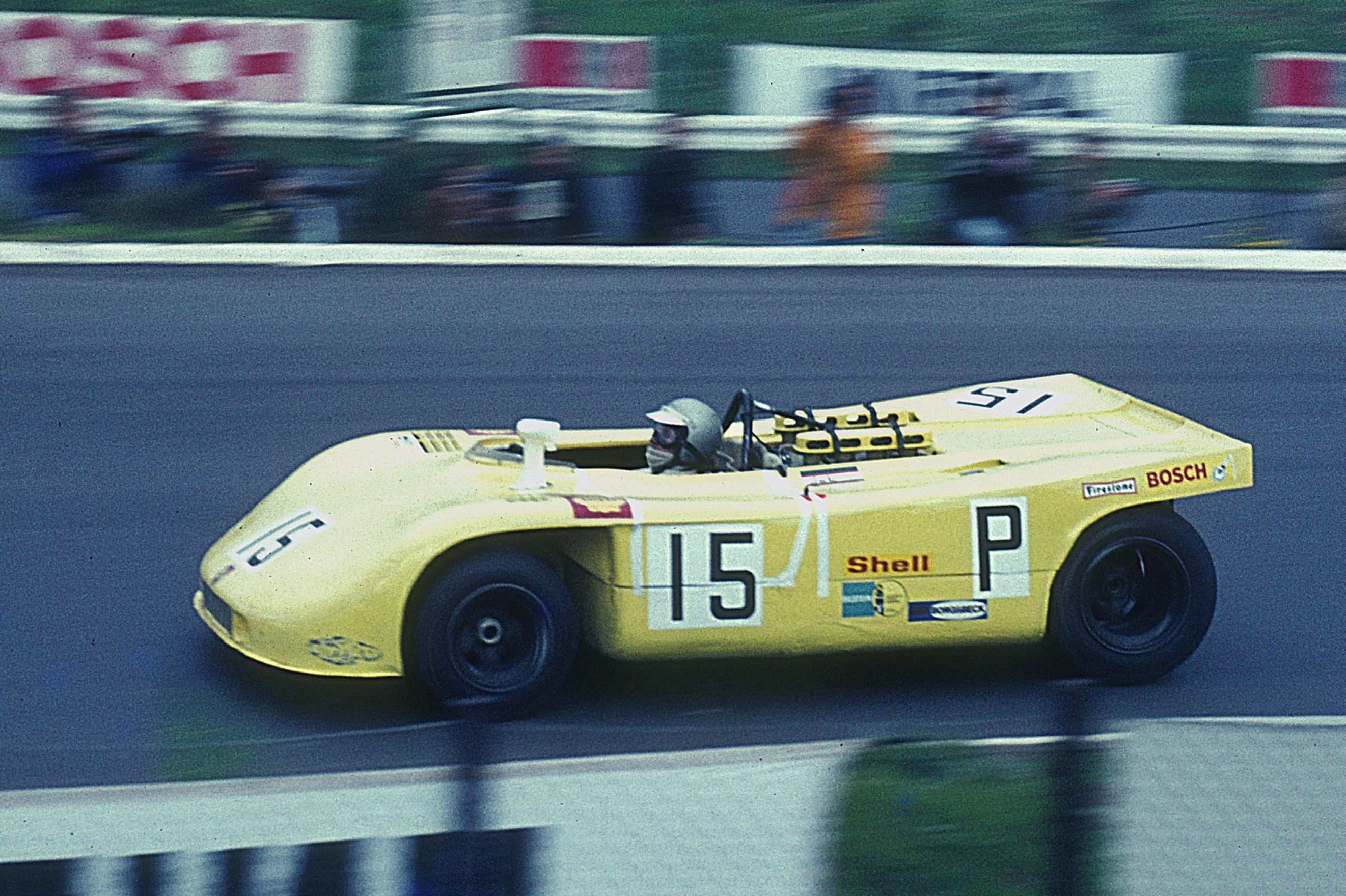 Porsche 908/03 driven by Hans Herrmann at Nürburgring.